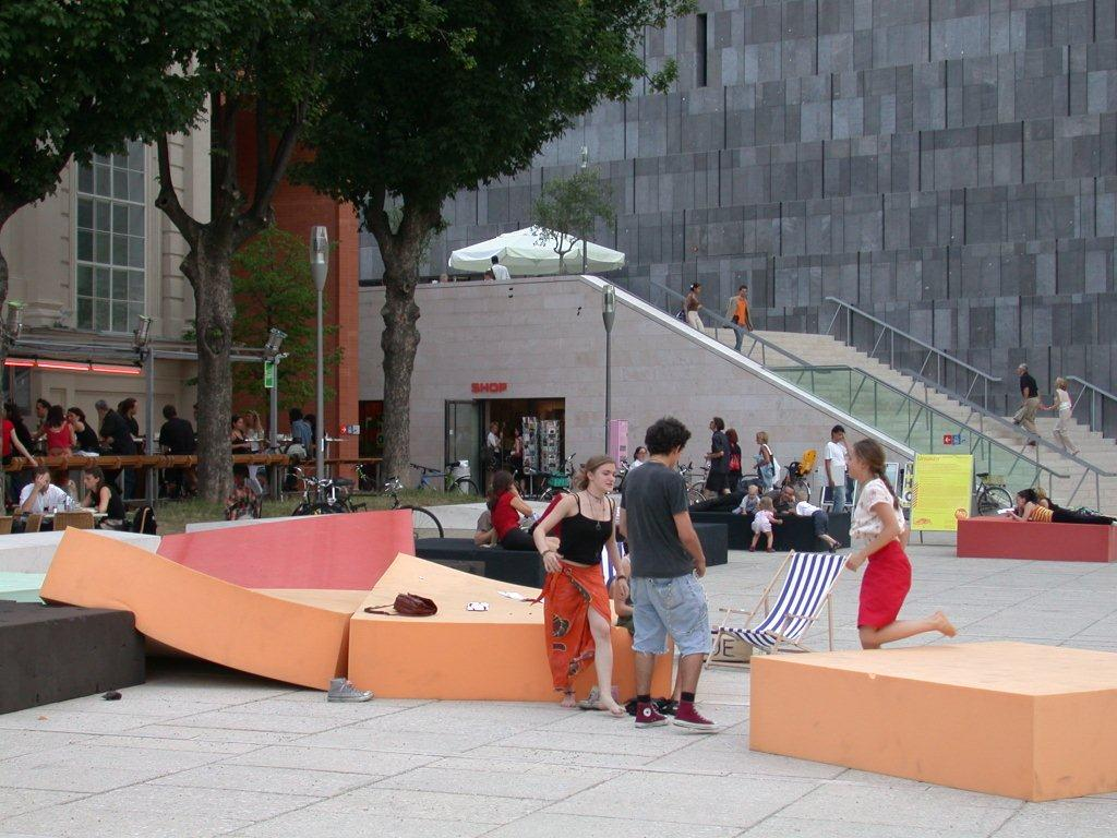 Trattner performance MQ, Vienna 2002